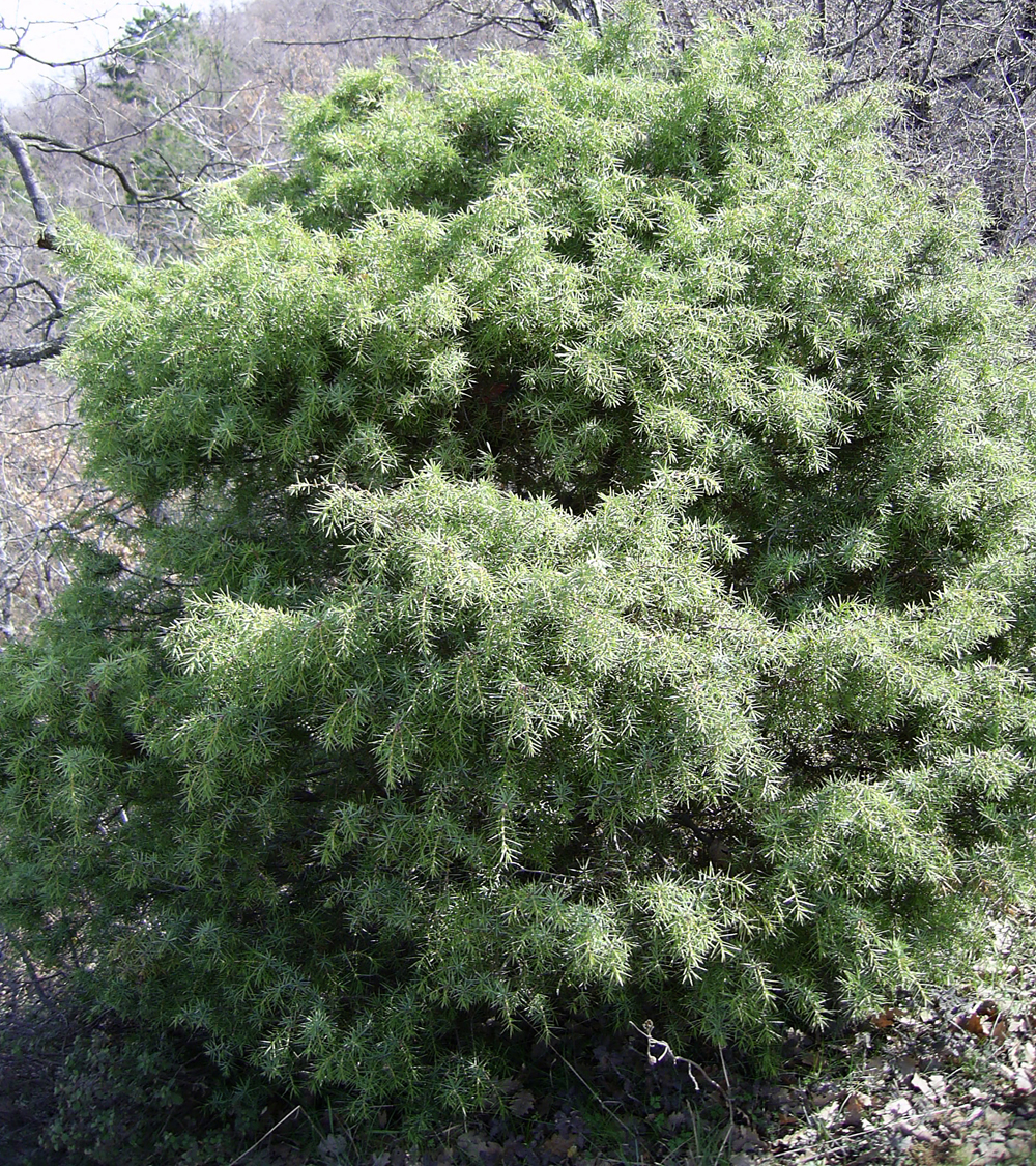 Juniperus deltoides at Ayu-Dag, Crimea